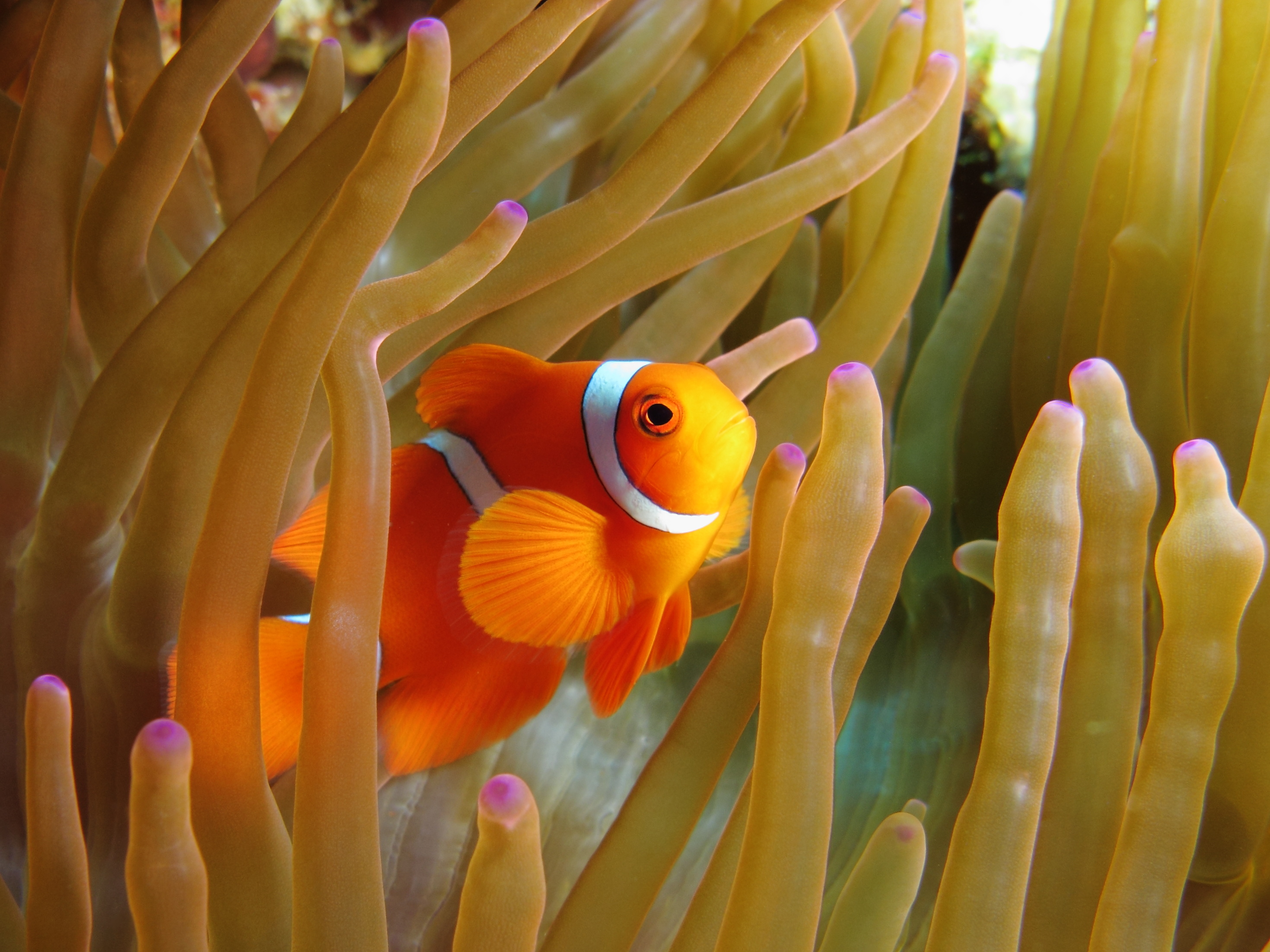 Anemonefish (Amphiprioninae sp.) at Gilli Banta (near Komodo, Indonesia)